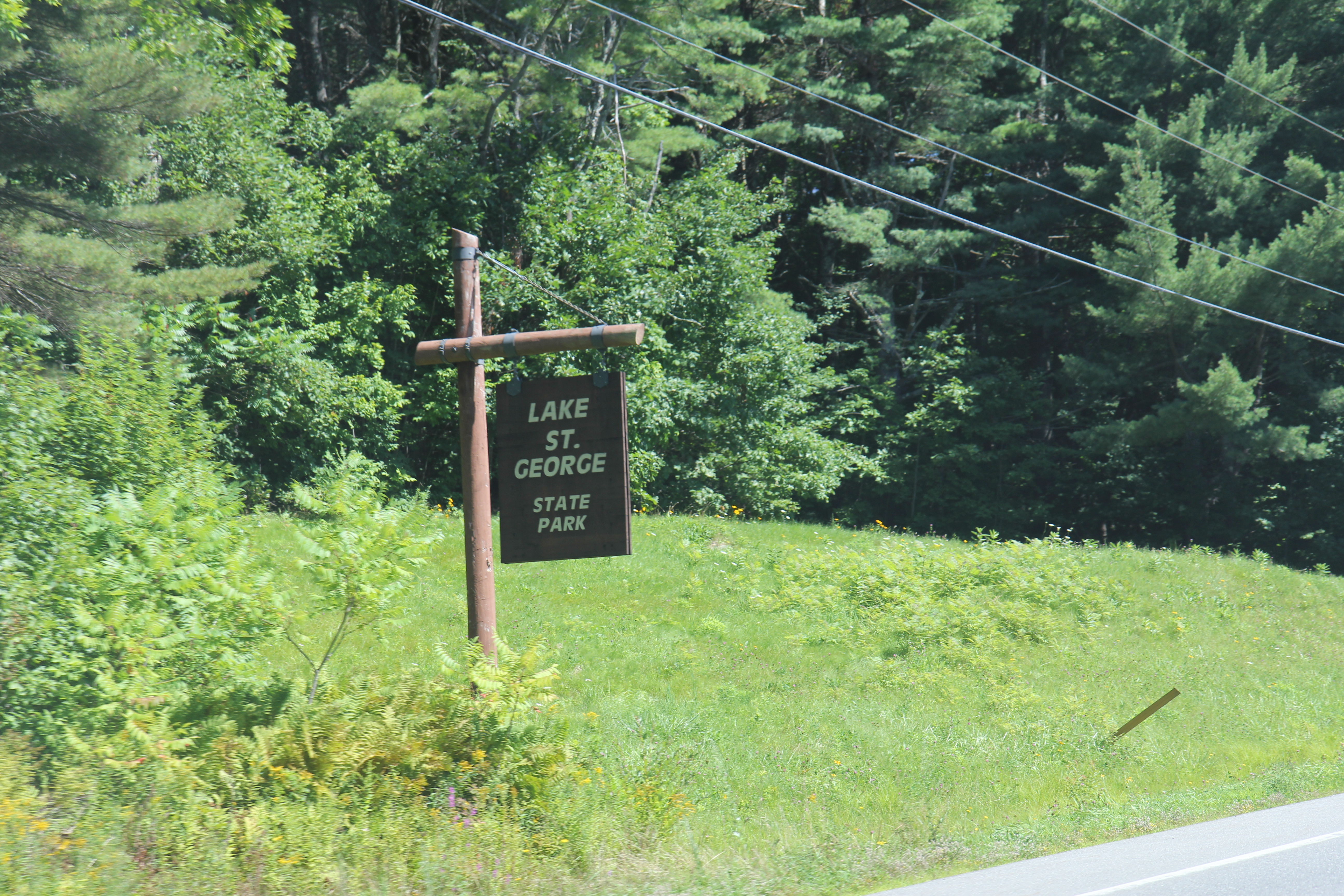 The sign for Lake St. George State Park in Maine